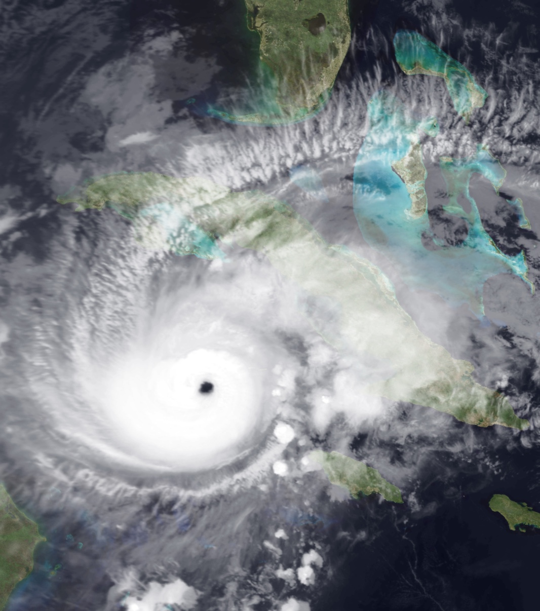 Hurricane Paloma near peak intensity